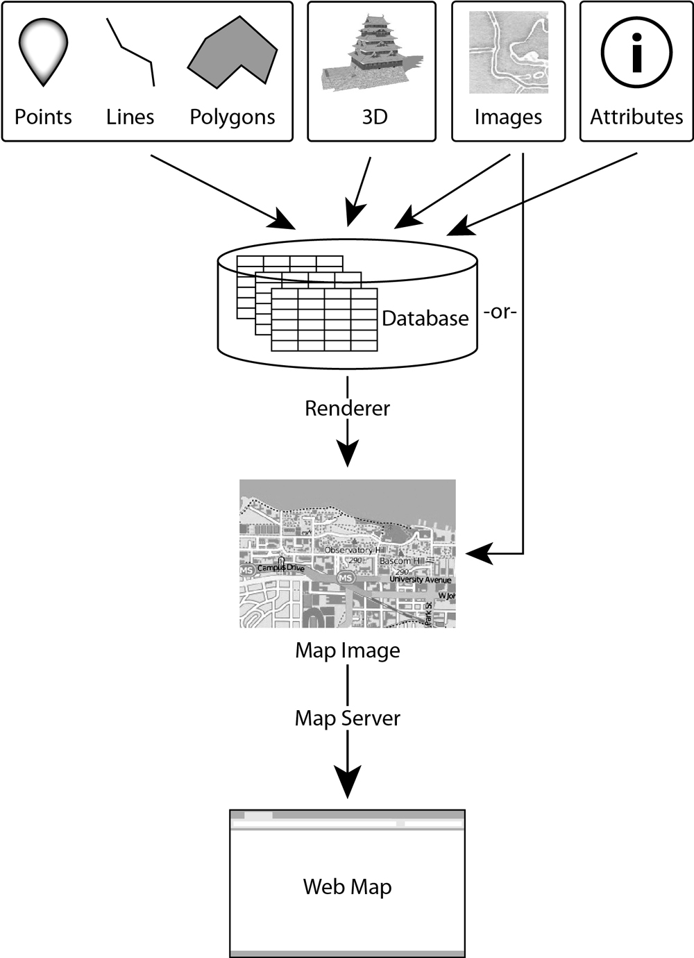 The steps of serving a map: 1) Data is aggregated, typically in a database; 2) a rendering engine is used to transform the data into an image, which can be done either on-the-fly or in advance with the image cached; 3) the image is served through a map server, which may also provide a rendering engine depending on the software used.